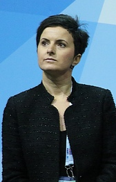 Natalia Kaliszek, Maksym Spodyriev and Sylwia Nowak at the 2016 World Championships